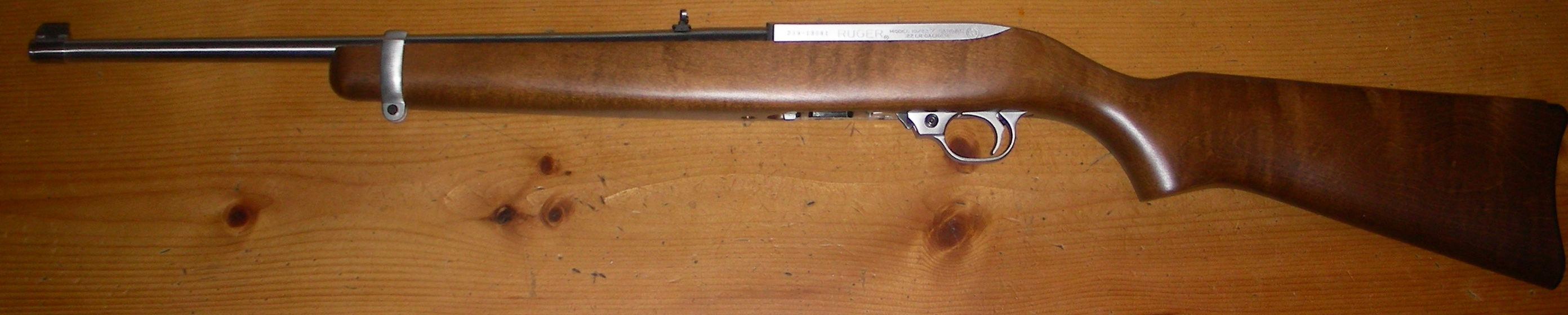 A Ruger 10/22 Carbine rifle. It features a hardwood stock, stainless steel hardware, and a black barrel.